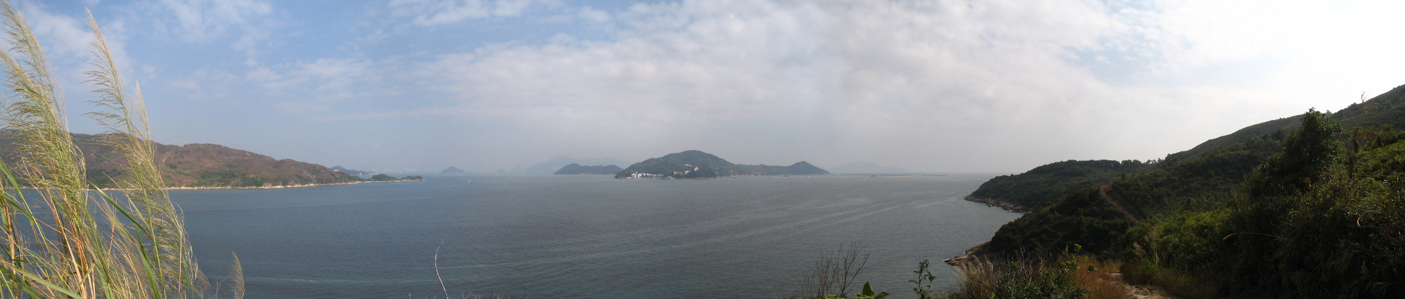 Panoramic photo of Silver Mine Bay, combined from 2039477655, 2039477655, 2040273952, 2039478197, 2039478459, 2039478747 and 2039479119